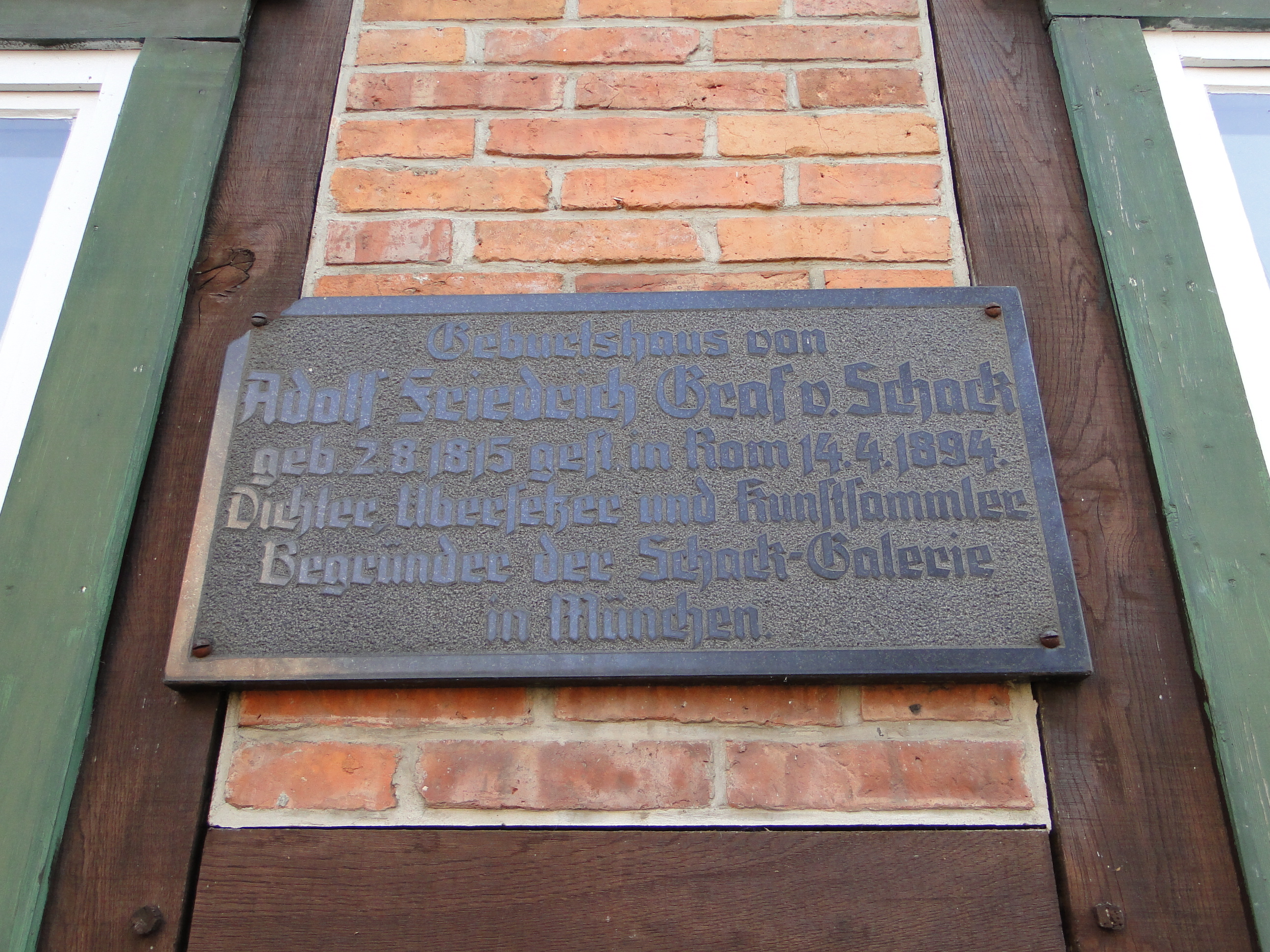 Memorial for Adolf Friedrich Graf von Schack (1815-1894) in the street Lindenstraße near the church Schelfkirche in Schwerin, Mecklenburg-Vorpommern, Germany